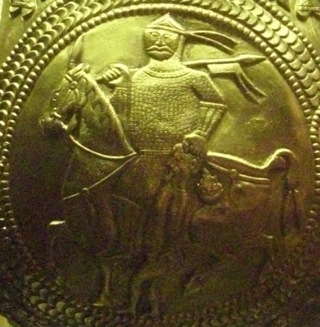 Proto_Bulgars